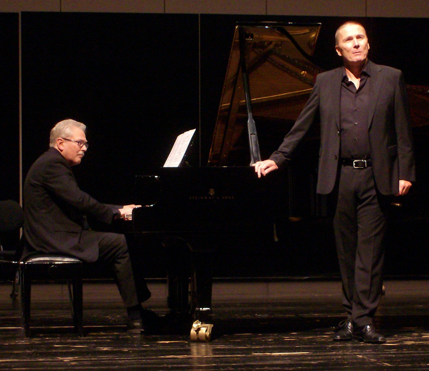 The Lied Duo Peter Nelson (piano) and Andreas Reibenspies (singer) at a recital, performing songs by Hugo Wolf, at the music conservatory of Trossingen, Germany.